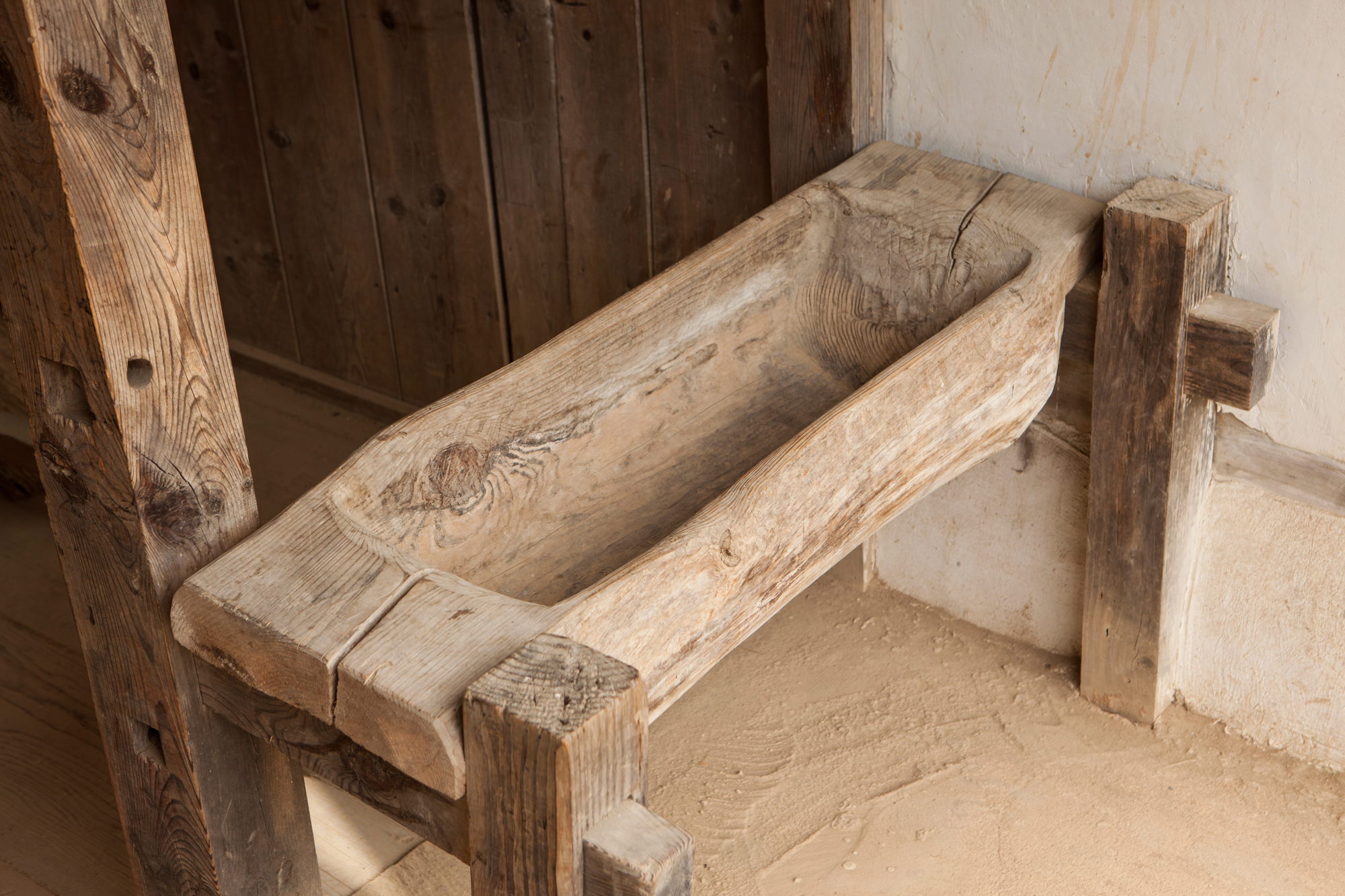 Guyu (manger, trough)